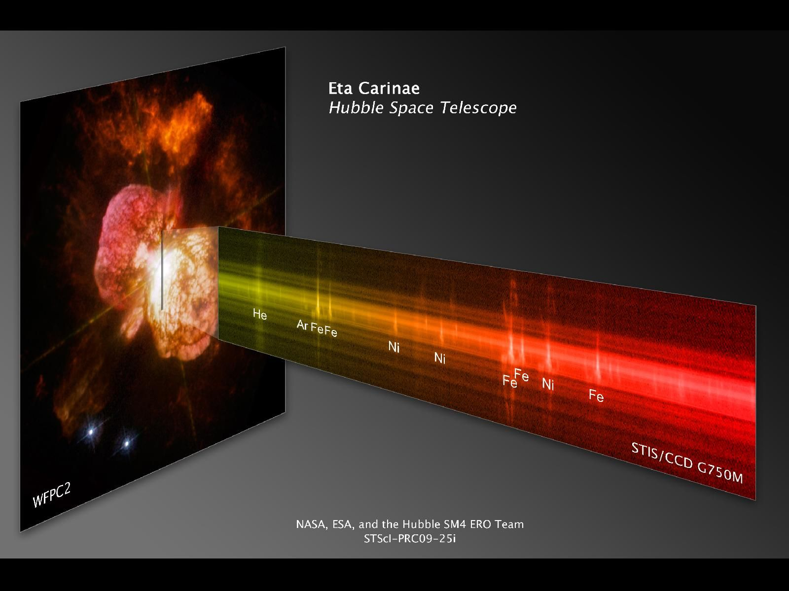 Probing the Last Gasps of Doomed Star Eta Carinae. The spectrum covers approximately 700nm - 760nm in the near infrared. The broard HeI line is from the primary wind, while the narrow forbidden ionised metal lines are from the surrounding nebula. The ArIII line may arise from the colliding wind zone.